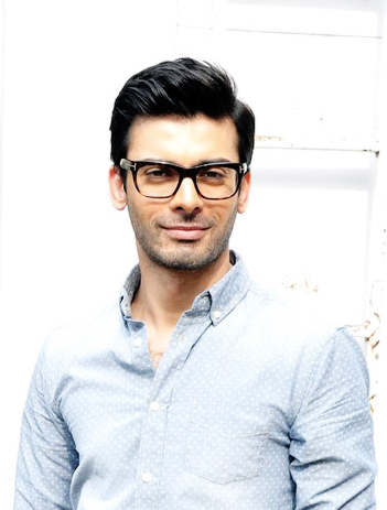 Fawad Khan promoting 'Khoobsurat' on the sets of Captain Tiao